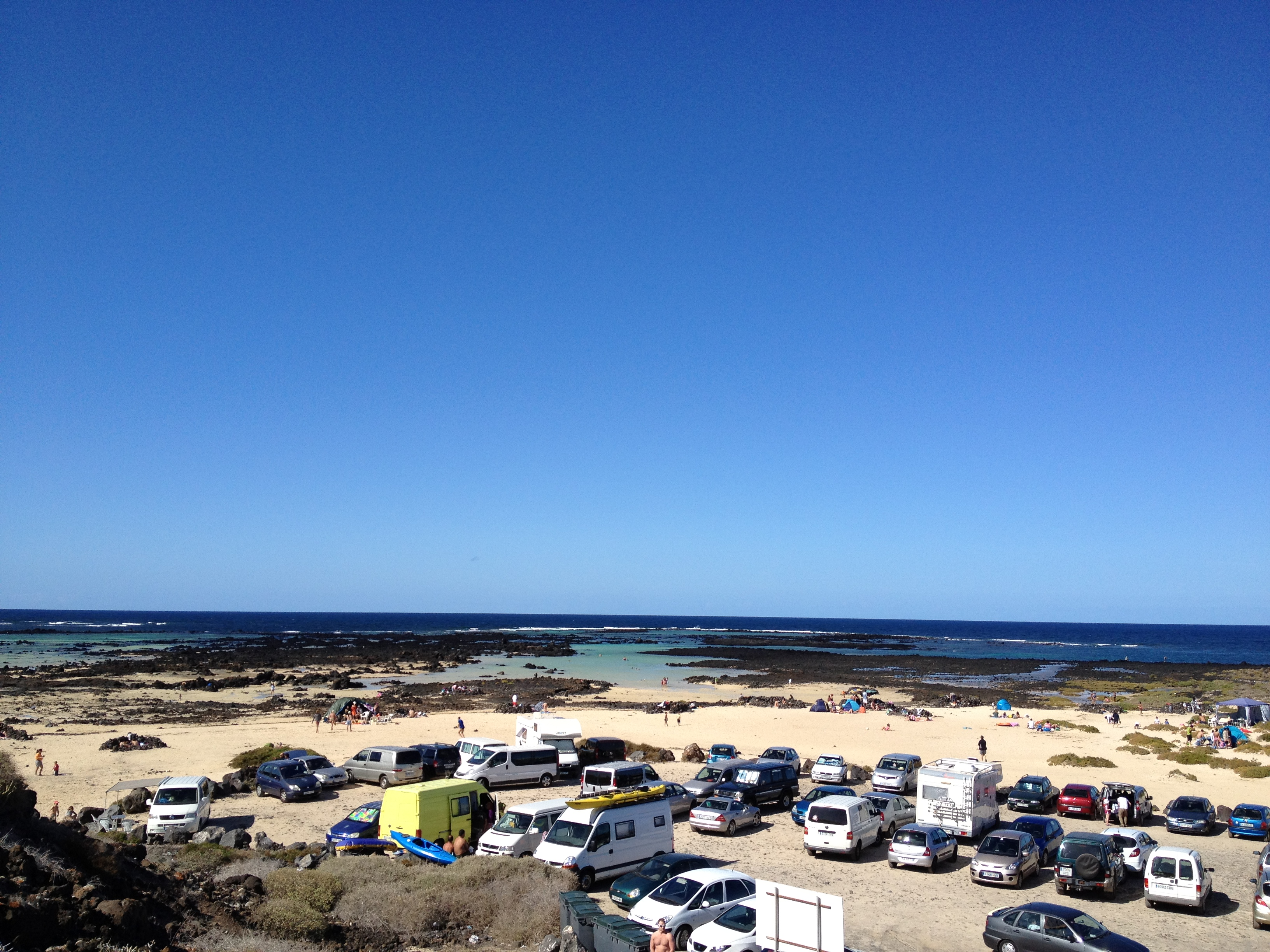 Couple of kilometers south from Órzola. There are other similar beaches down the road to Arrieta less crowded but equally beautiful